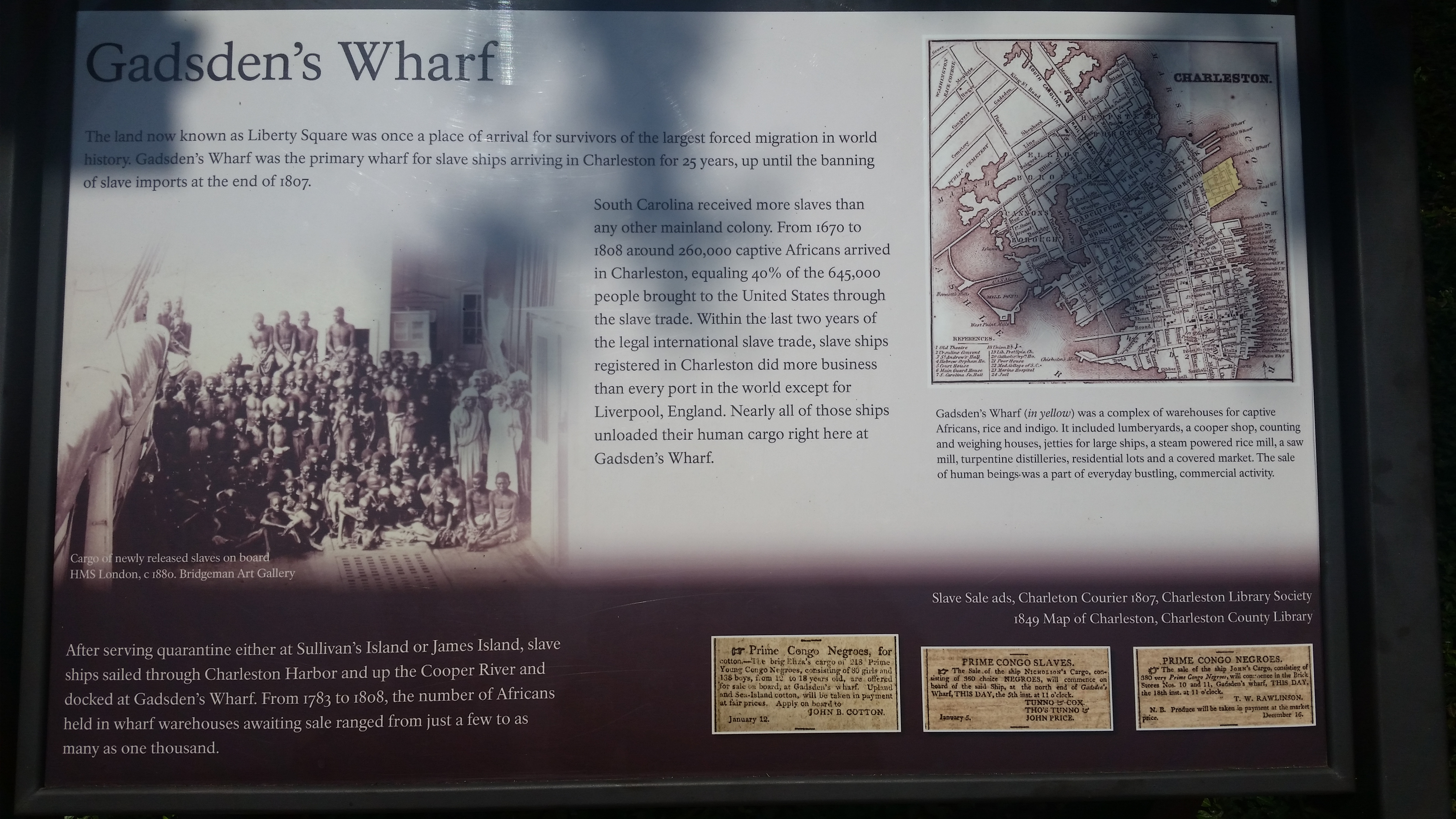 US National Park Service marker at Liberty Square, Charleston, for the Gadsden Wharf